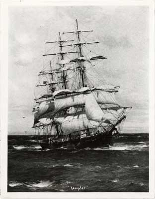 Painting of tea clipper Leander. 1 photographic print: b&w. Written on back: "LEANDER. Type: Tea clipper. Builder: Lawrie, Glasgow, 1867. Dimensions: 210' x 35'2" x 20' 7". Tonnage: 848. Full name: Leander."